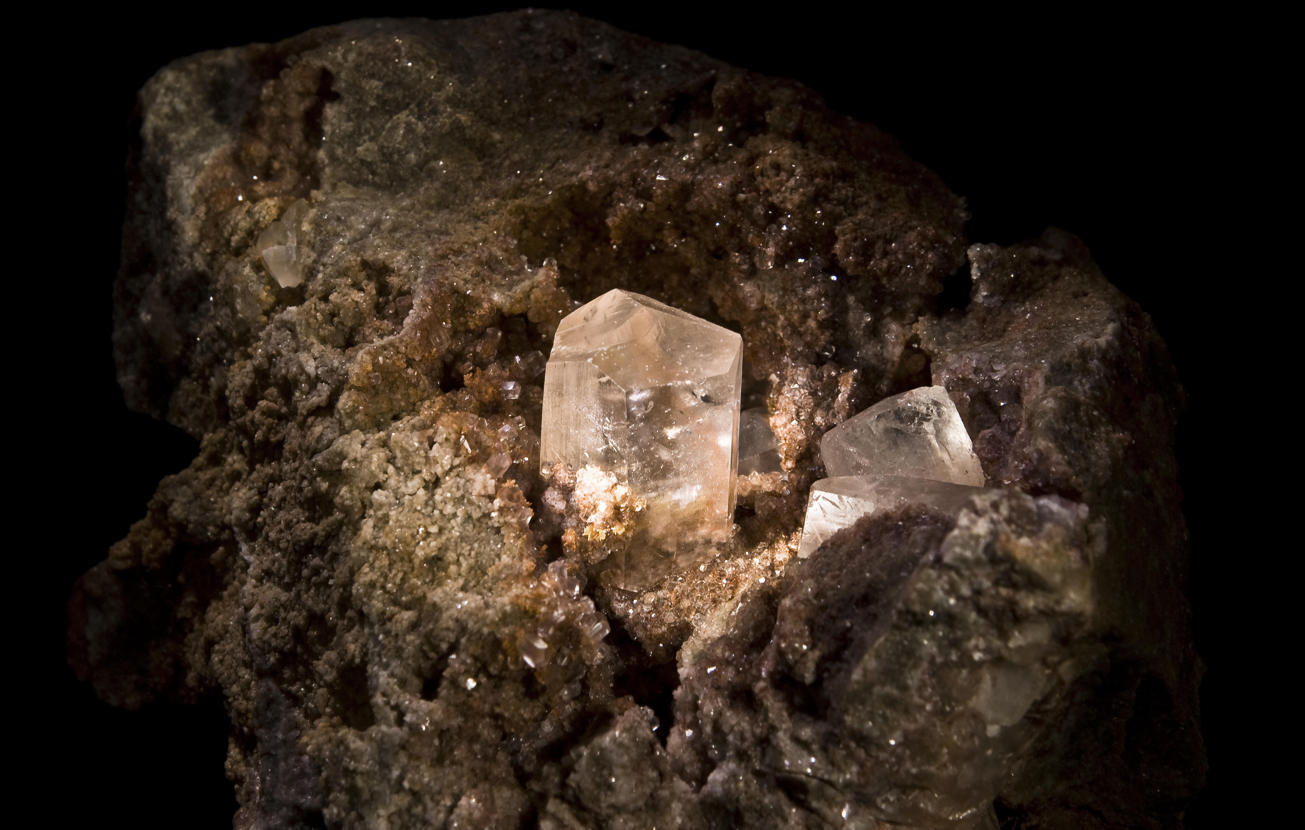 Calcite - Bruniquel Tarn-et-Garonne, Midi-Pyrénées France - (8x6(XX2.5)cm)